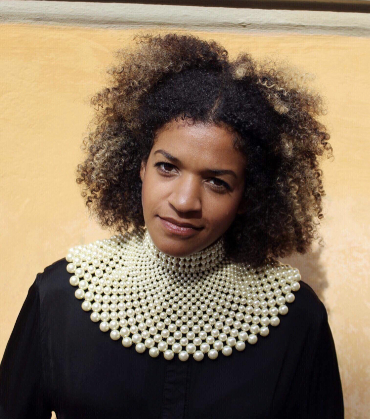 Angelika Prick